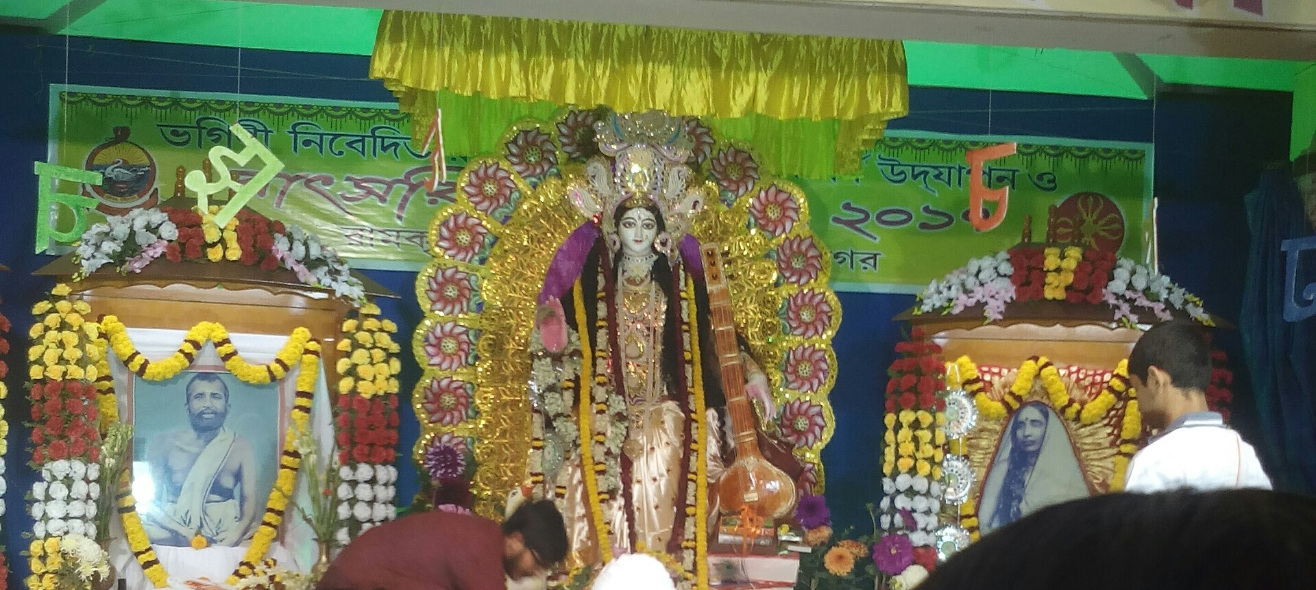 Saraswati idol at BRKM School in 2017